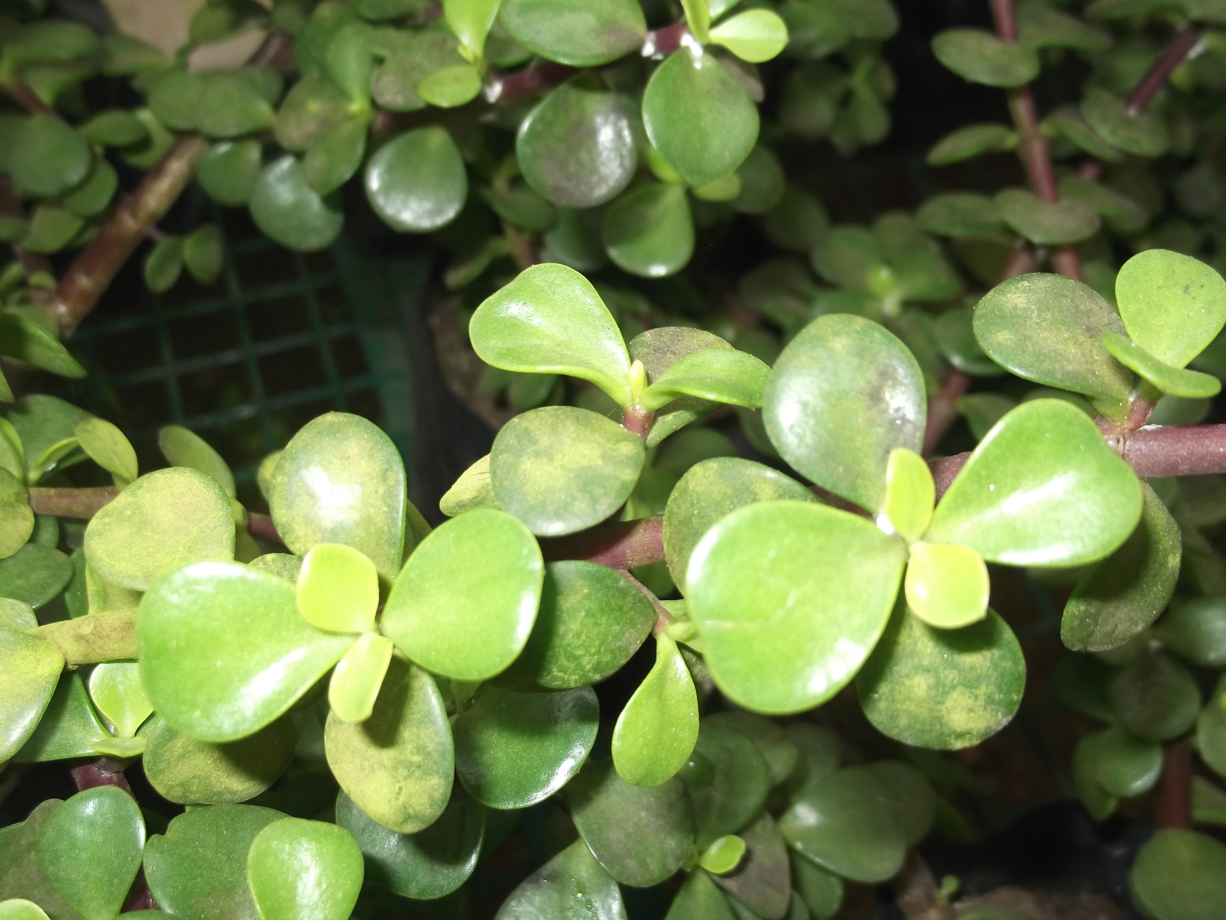 Misidentified plant: this is Portulacaria afra!